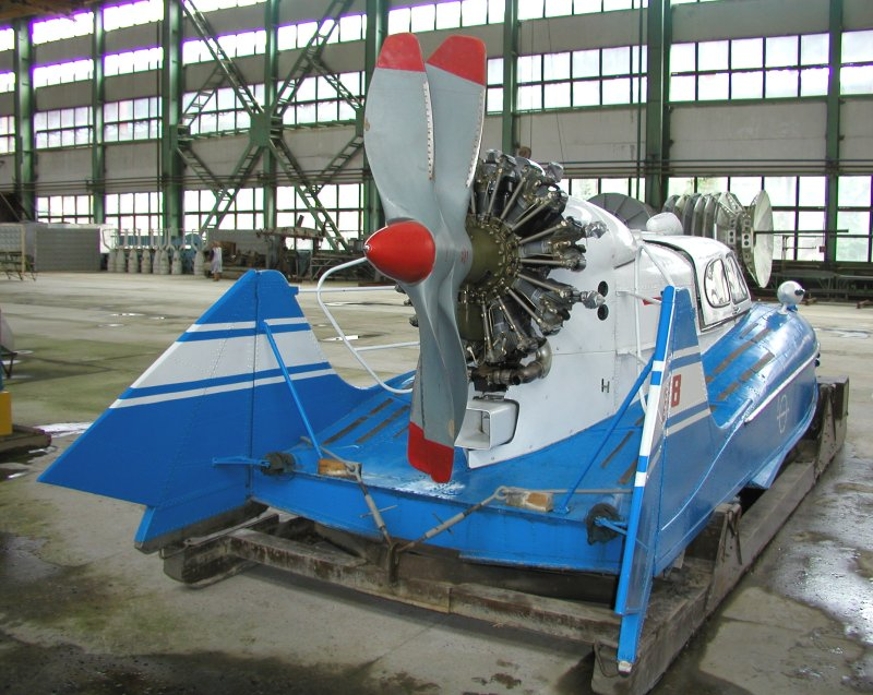 Tupolev A-3 aerosan (Dubove Helicopter Plant, Dubove, Transcarpathian region, Ukraine)